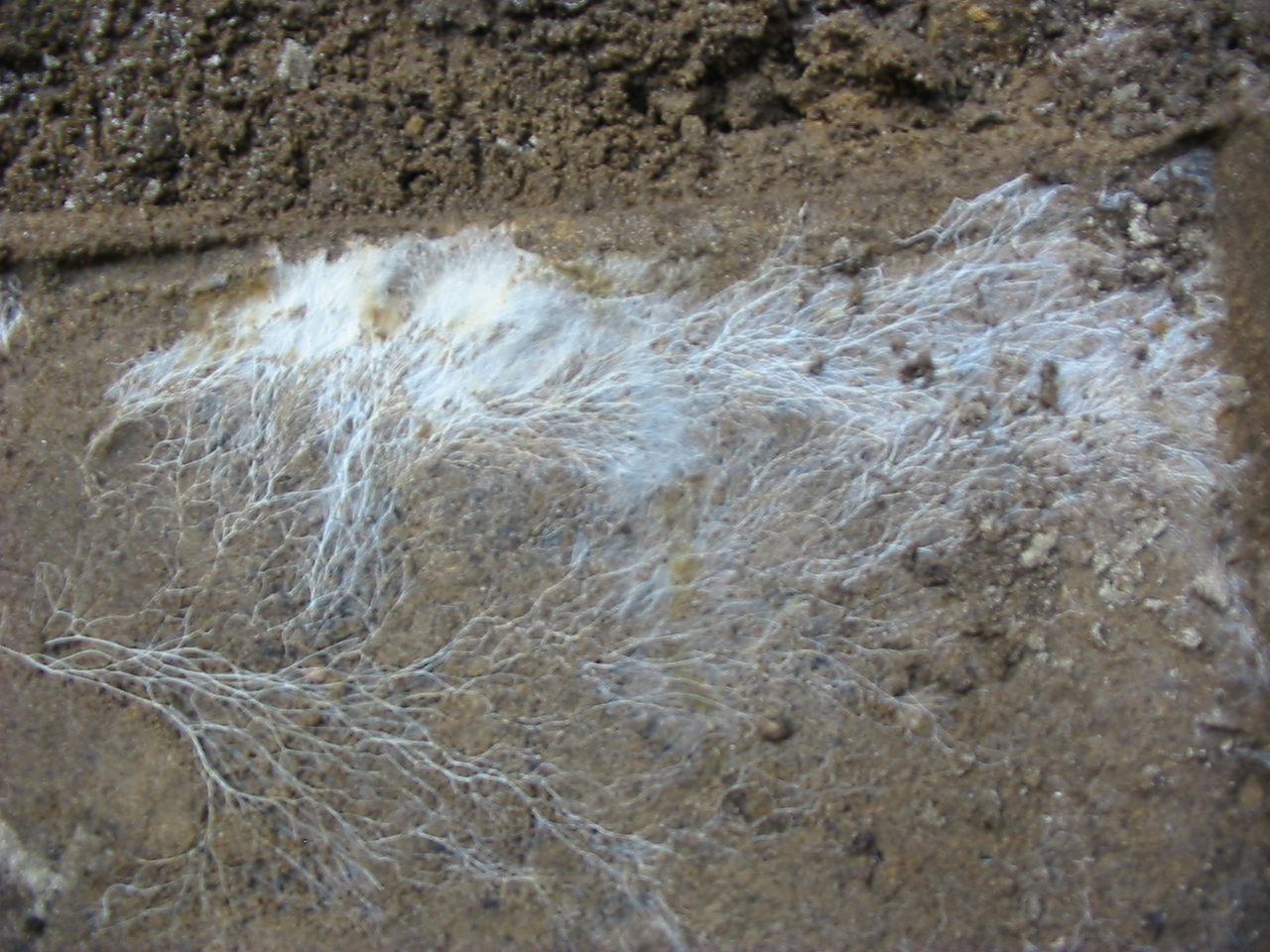 Homemade picture hyphae. Pictures at home of fungal hyphae in mycelium. The mycelium has emerged during the removal of a stone. Hyphae